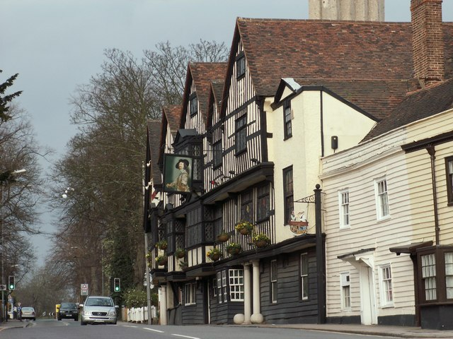 'The Olde Kings Head' inn This wonderful timber-framed building was built in the 17th century and had a large addition in 1901. The road in the picture is the A113.